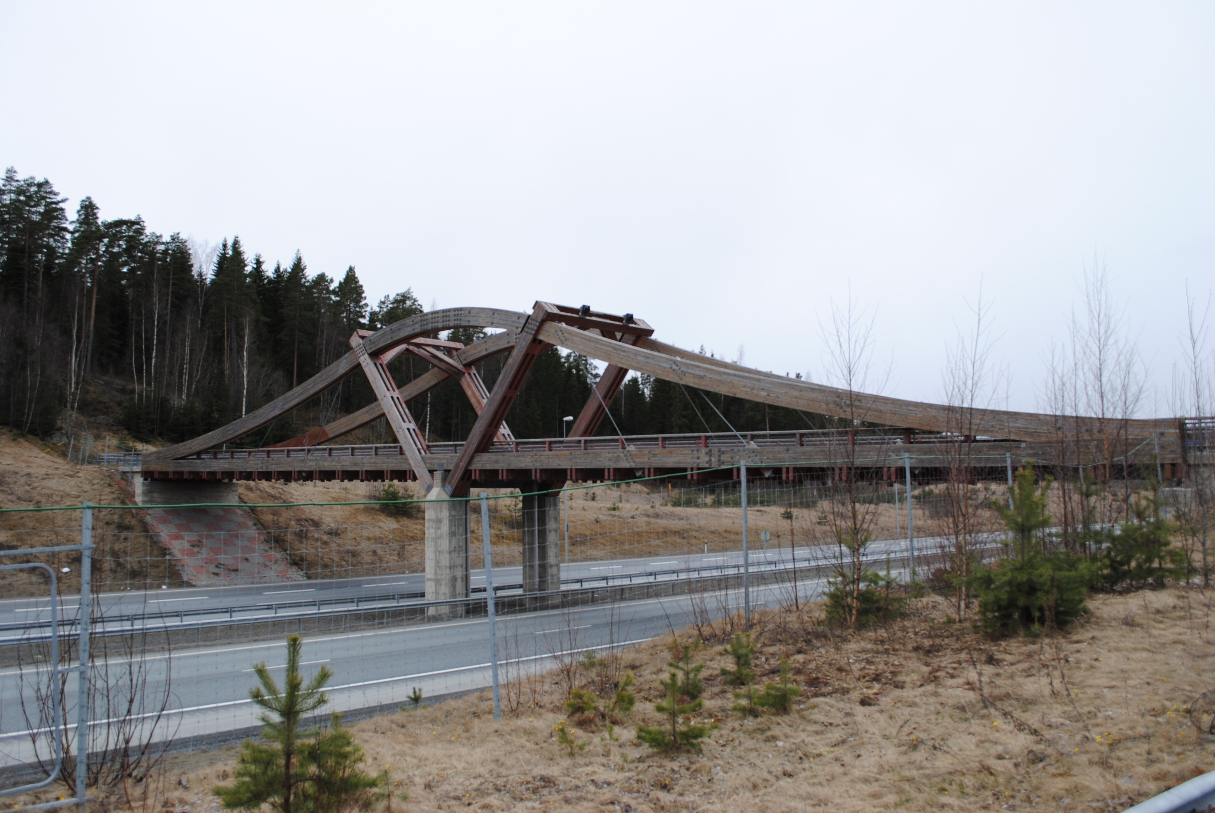 Wooden Nahkiala pedestrian bridge in Toijala, Akaa, Finland passing over the National road 3 (E12).